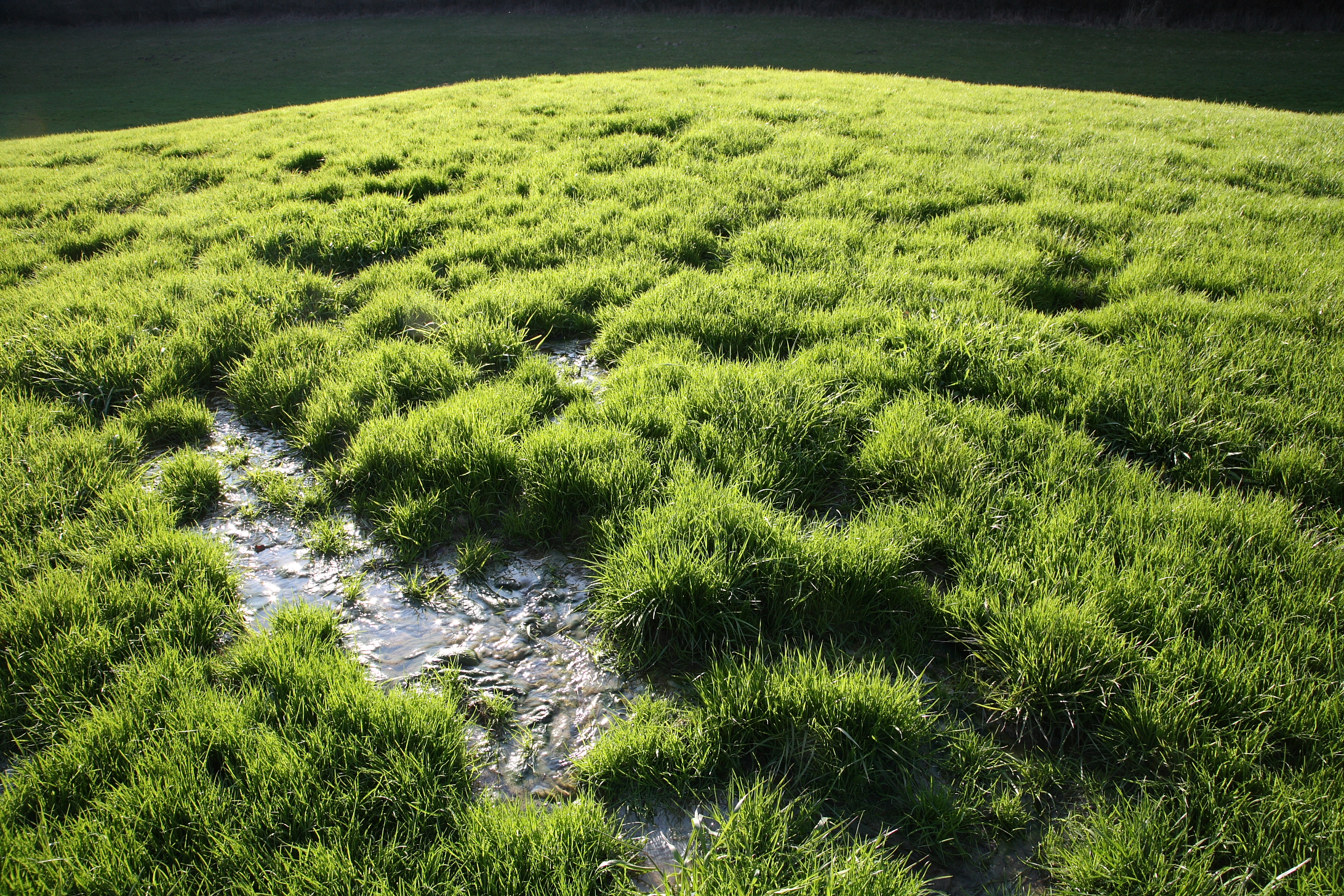 Small karst spring, emerging in grassland only. The spring's unfiltered, clayish, wheathered debris is gradually layering cones with the grass on top. Westphalia